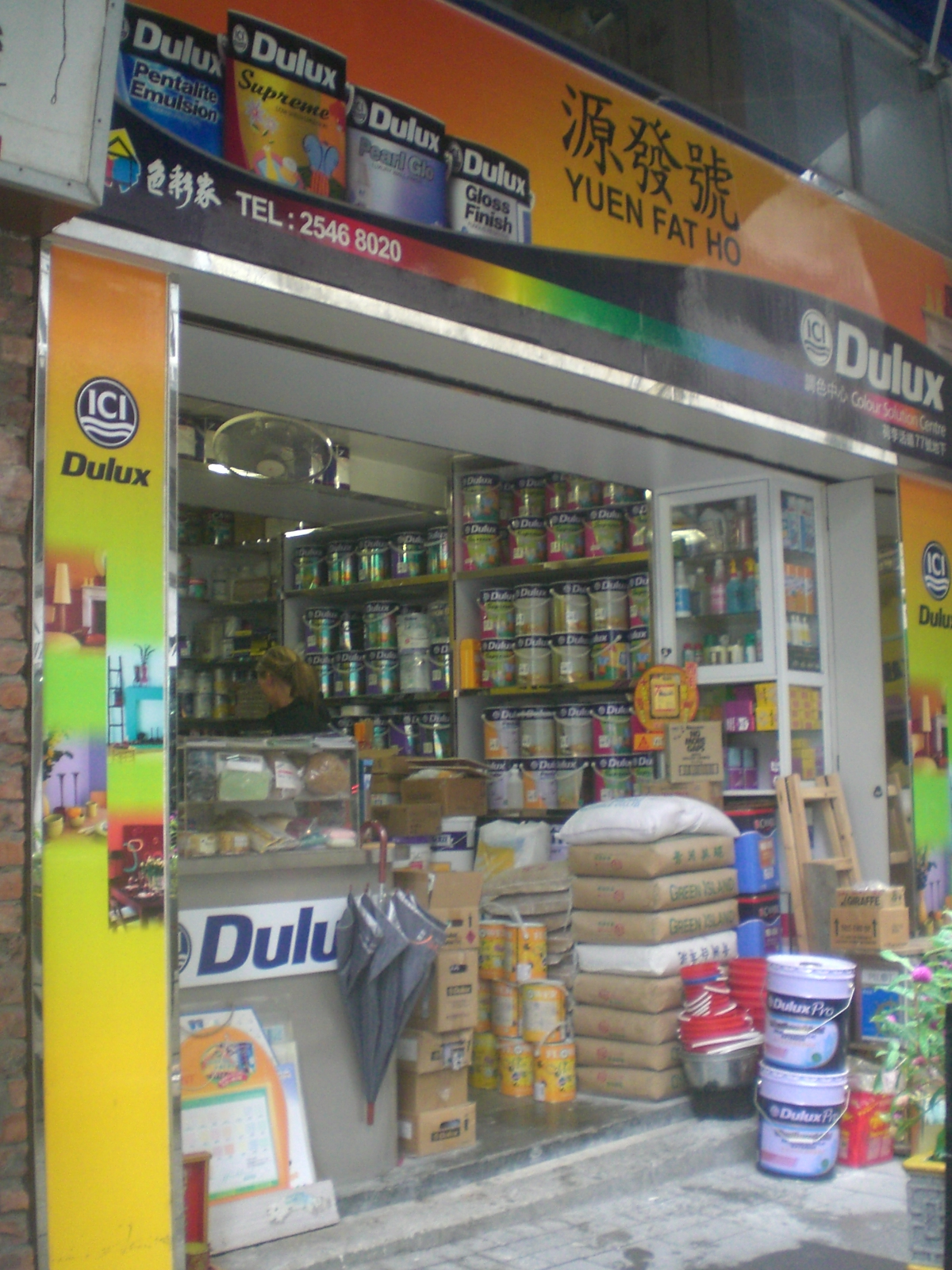 香港中環 荷李活道 顏料公司 多樂士牌 油漆產品